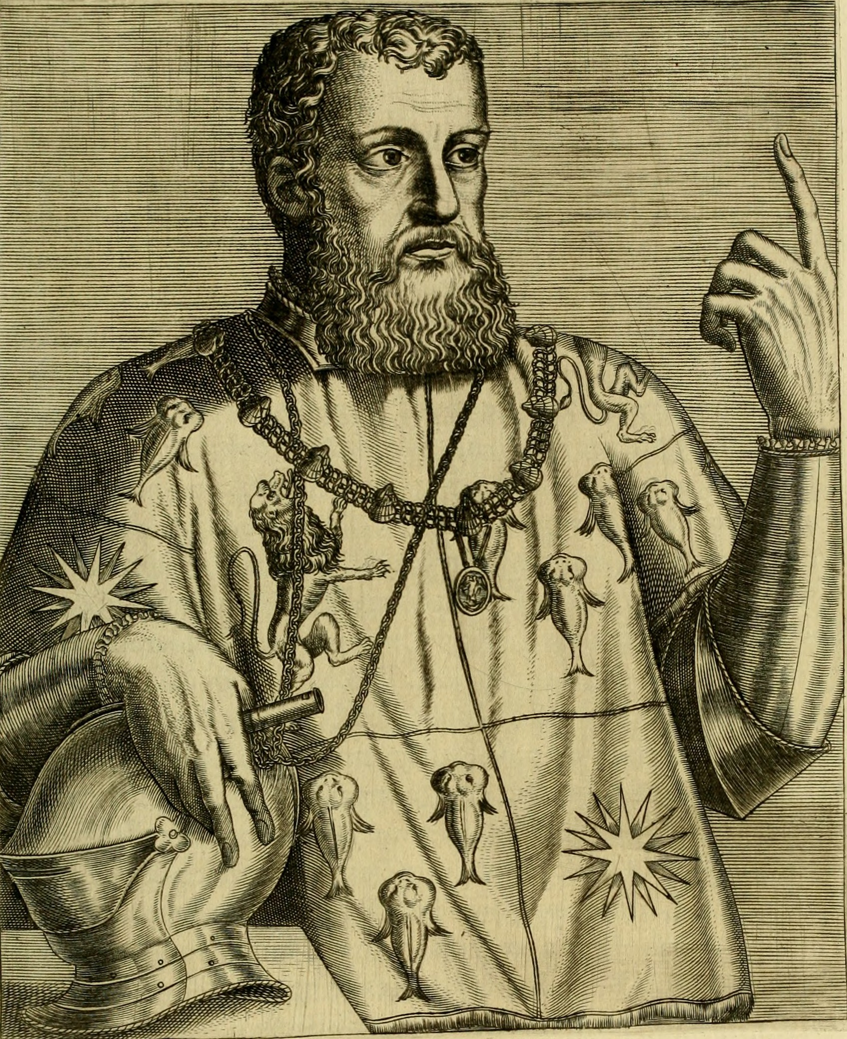 Philippe de Chabot, from tome 2, folio 382 recto of Les vrais pourtraits et vies des hommes illustres grecz, latins et payens (1584) by André Thevet.